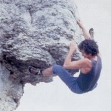 1976, rocks of the Moures, Alpes de Haute Provence. Ivano Ghirardini in training before facing the first solitary winter triology of the last three problems of the Alps.